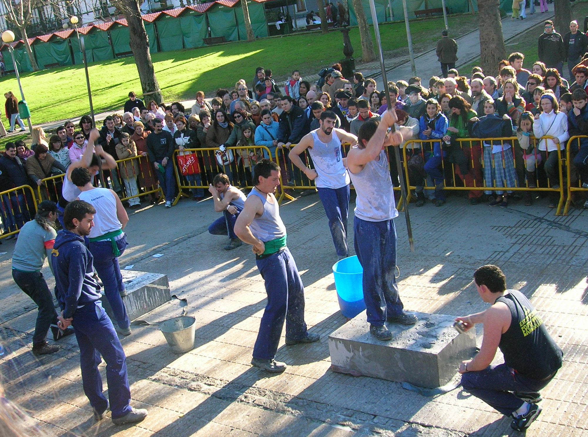 Prueba de barrenadores. Fiestas de San Vicente, Barakaldo. Fuera del calendario de competición oficial, éste fue un encuentro amistoso entre dos equipos de tres barrenadores del mismo club (Errekatxo). El botillero (el chico de camiseta negra, a la derecha) está echando agua para retirar los pedacitos de piedra y para bajar la temperatura de la punta de la barra.